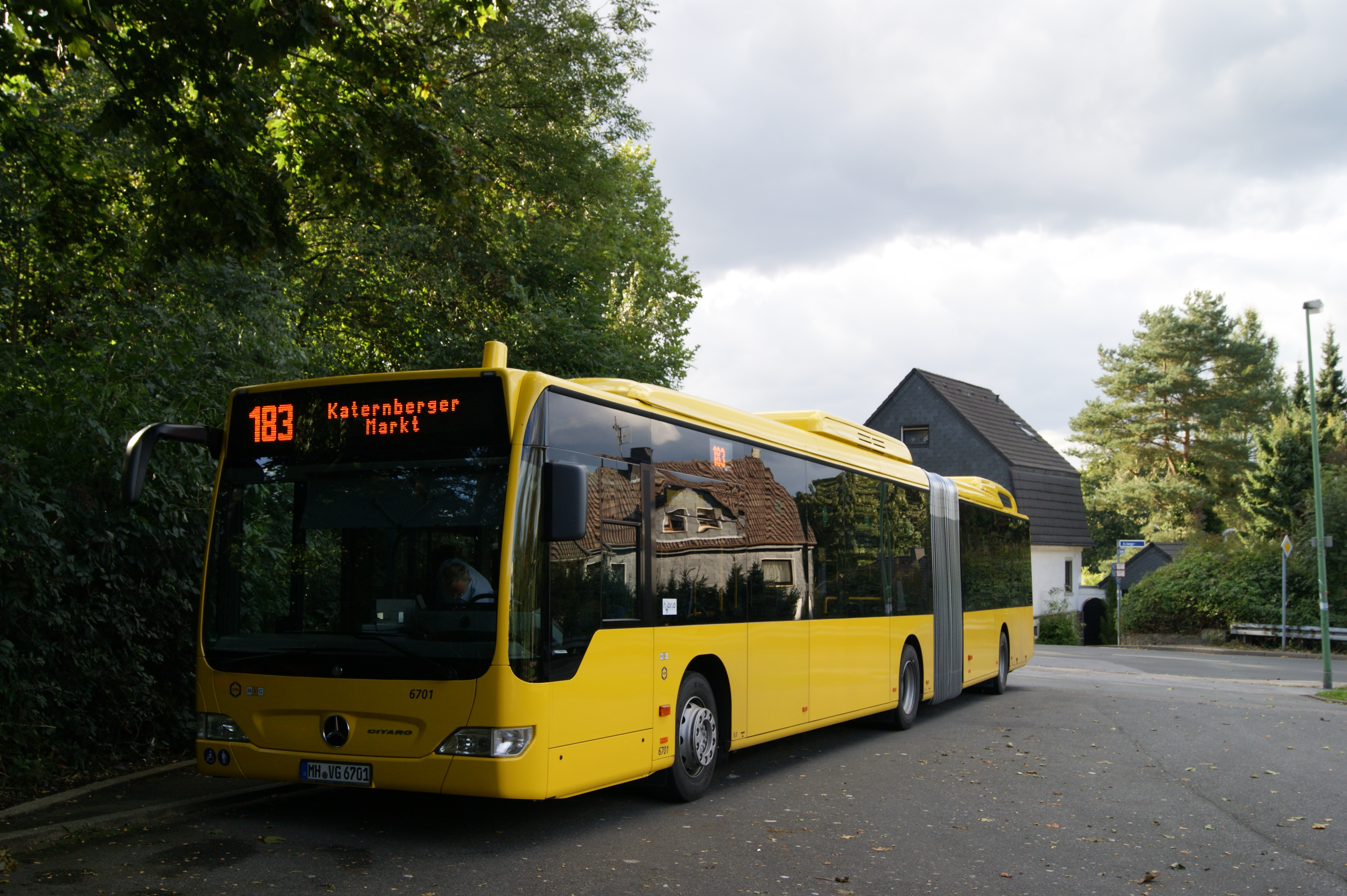 Mercedes-Benz Citaro G BlueTec Hybrid bus (#6701, reg. MH-VG 6701) in Mülheim an der Ruhr, Germany. Built 2010, Verkehrsverbund Rhein-Ruhr operator.